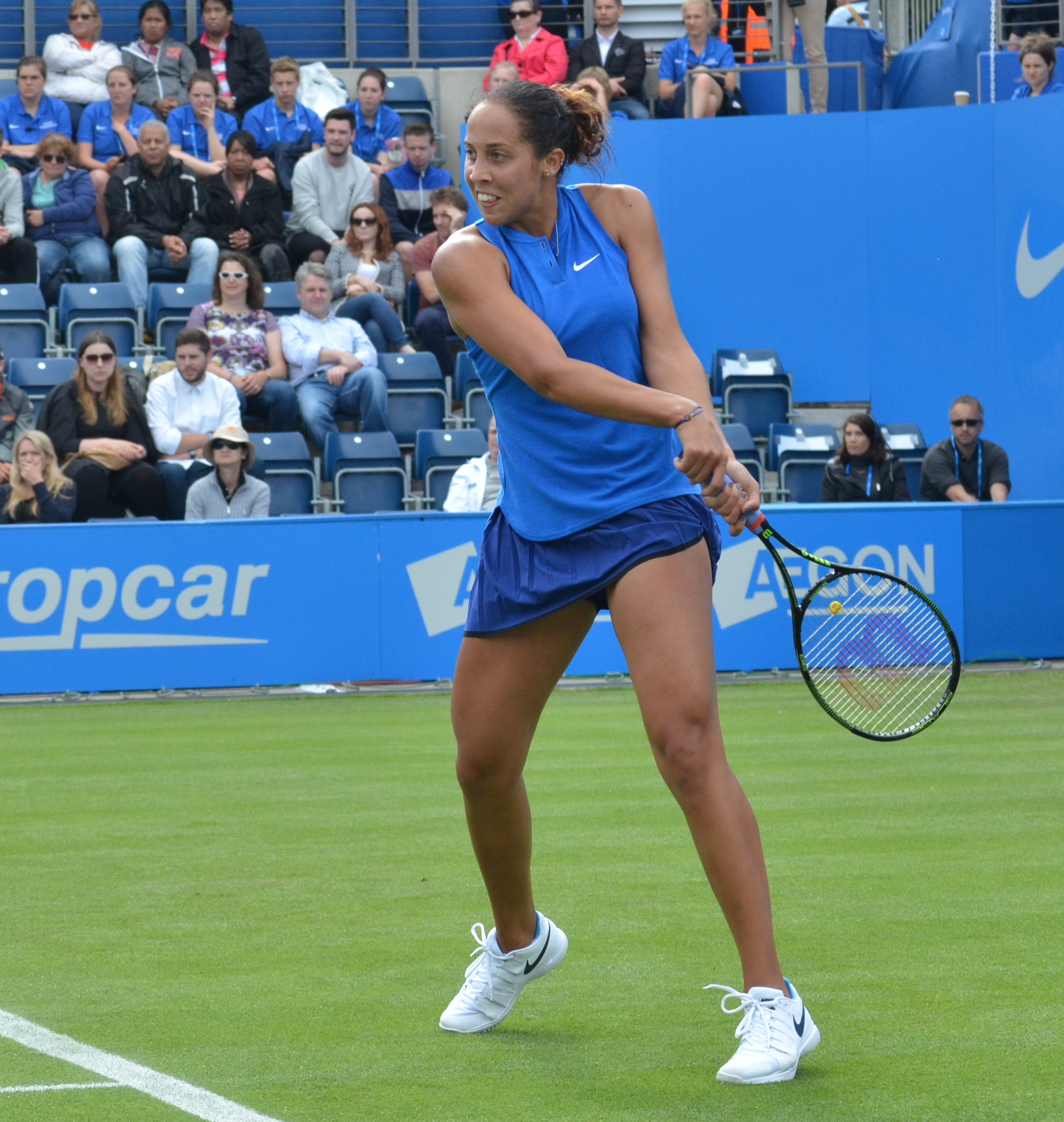 Madison Keys hitting a backhand at Aegon Classic in 2016 where she won the title.